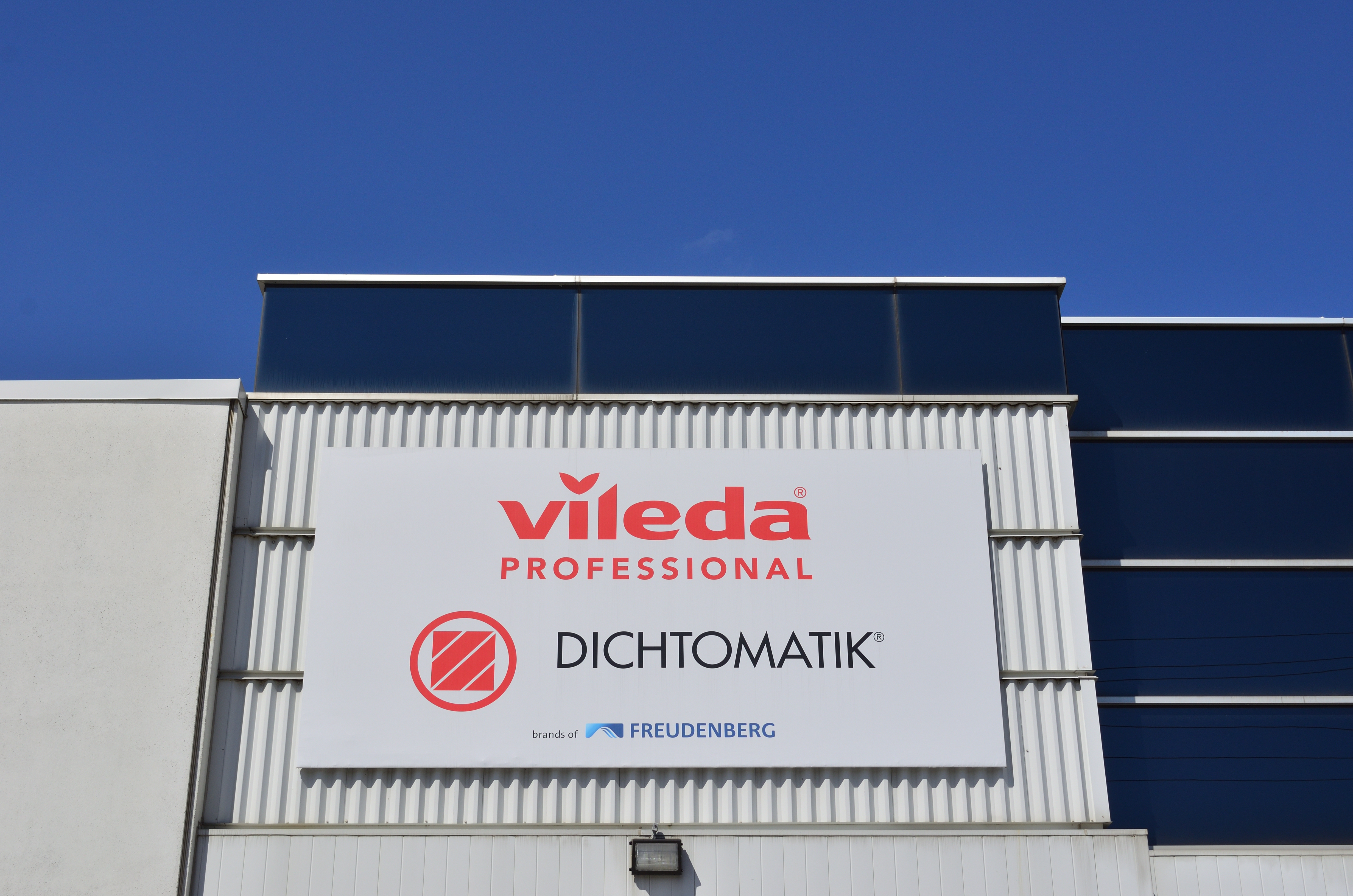 Vileda Freudenberg office - Address: 3900 14th Ave, Markham, ON L3R 4R3